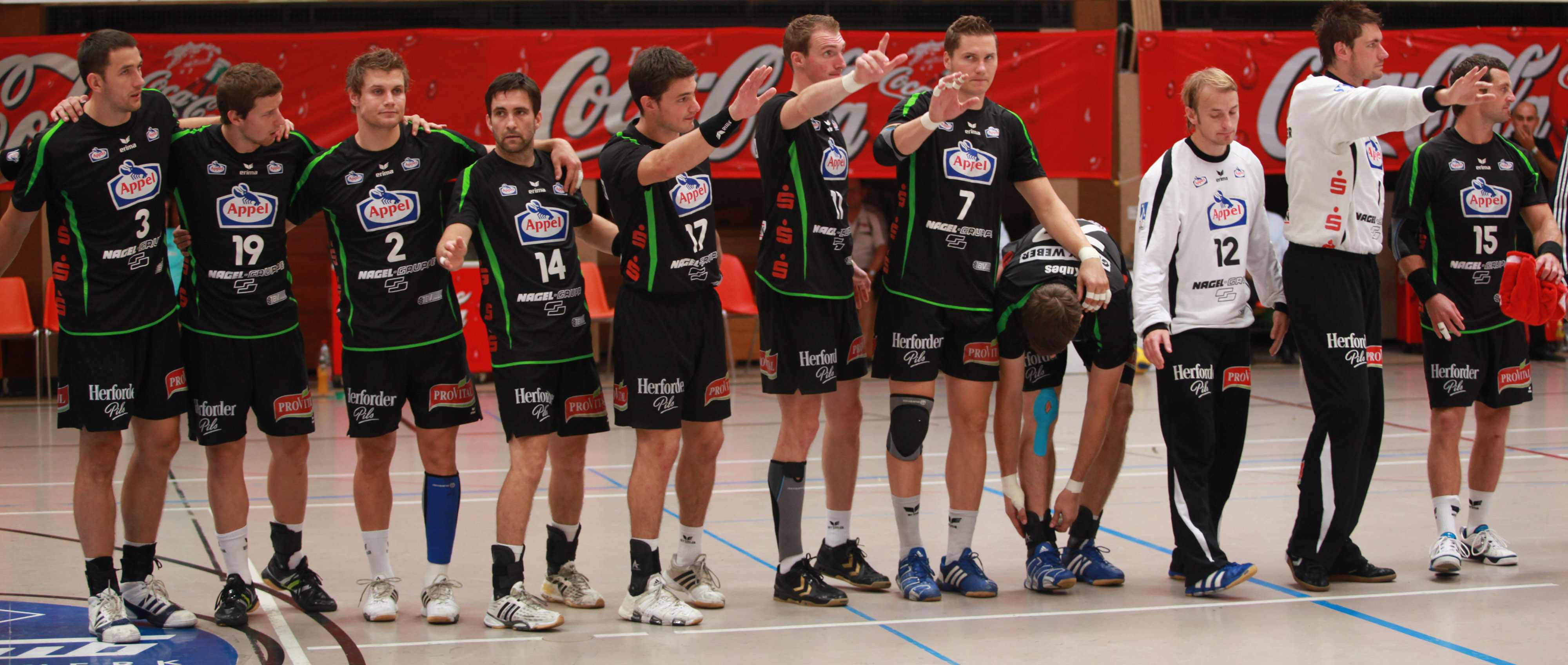 The team TBV Lemgo during the Schlecker Cup 2009 in Ehingen (Germany)